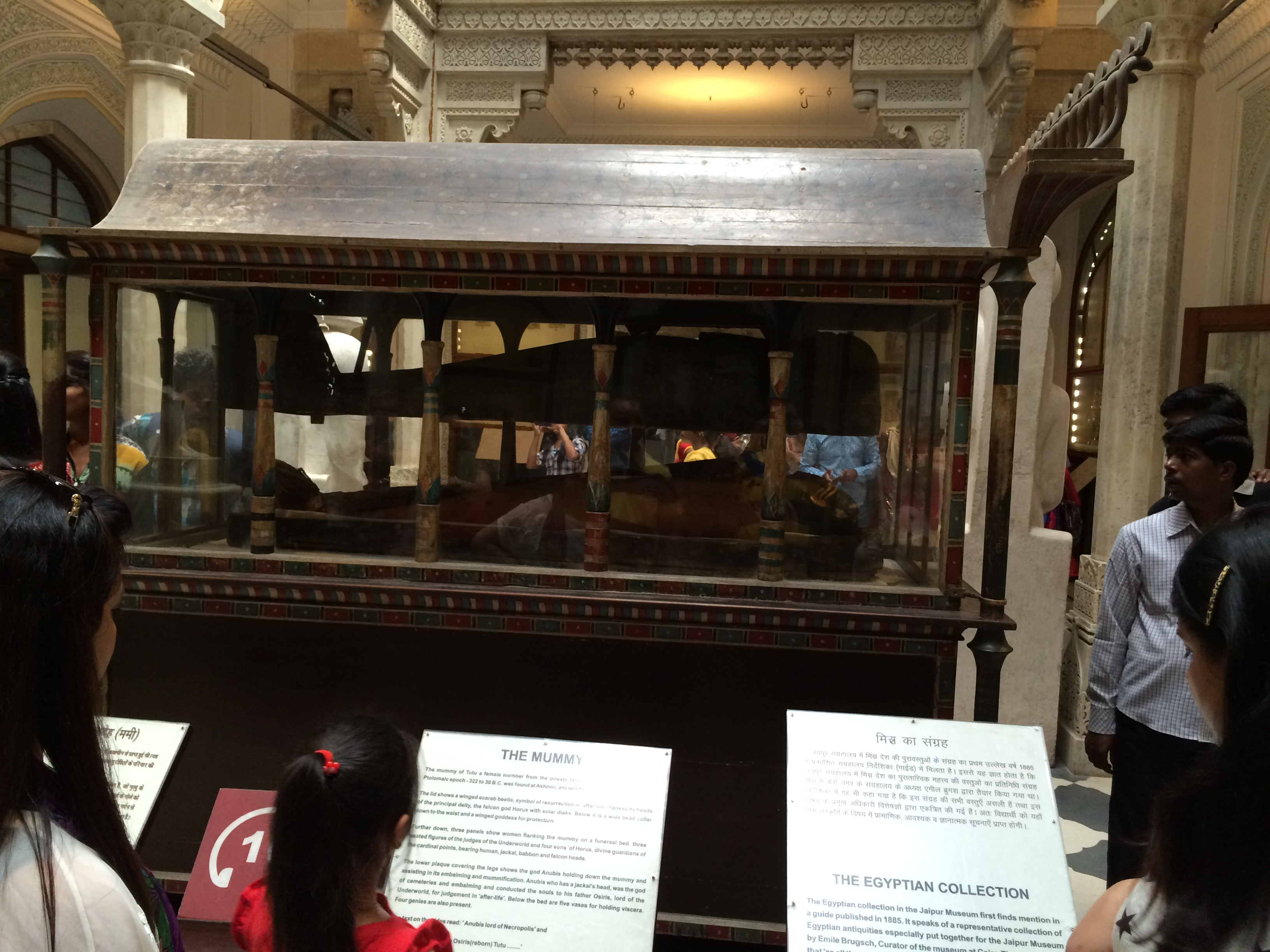 Egyptian mummy at Albert Hall Museum, Jaipur